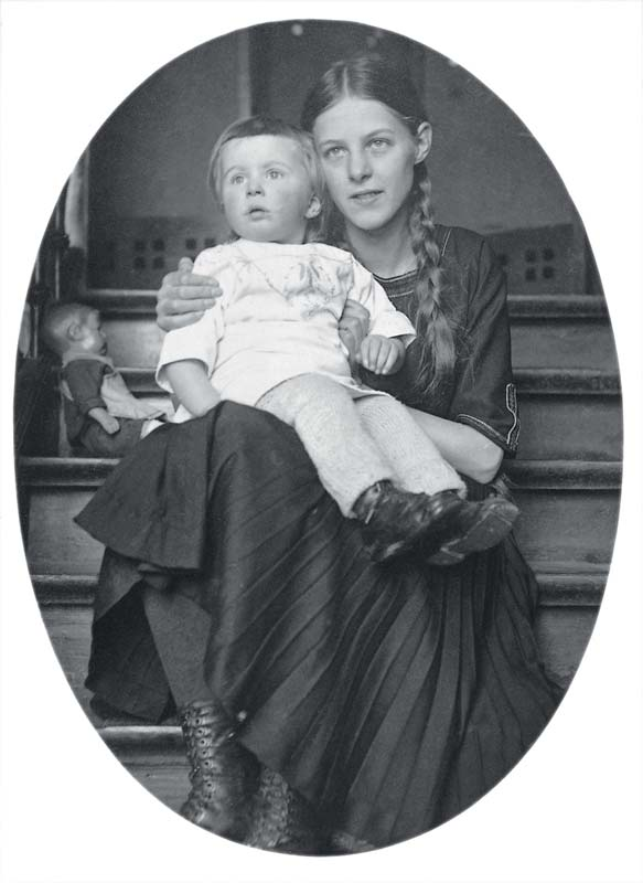 Christine "Tini" Thiersch mit Bruder Karl, um 1923